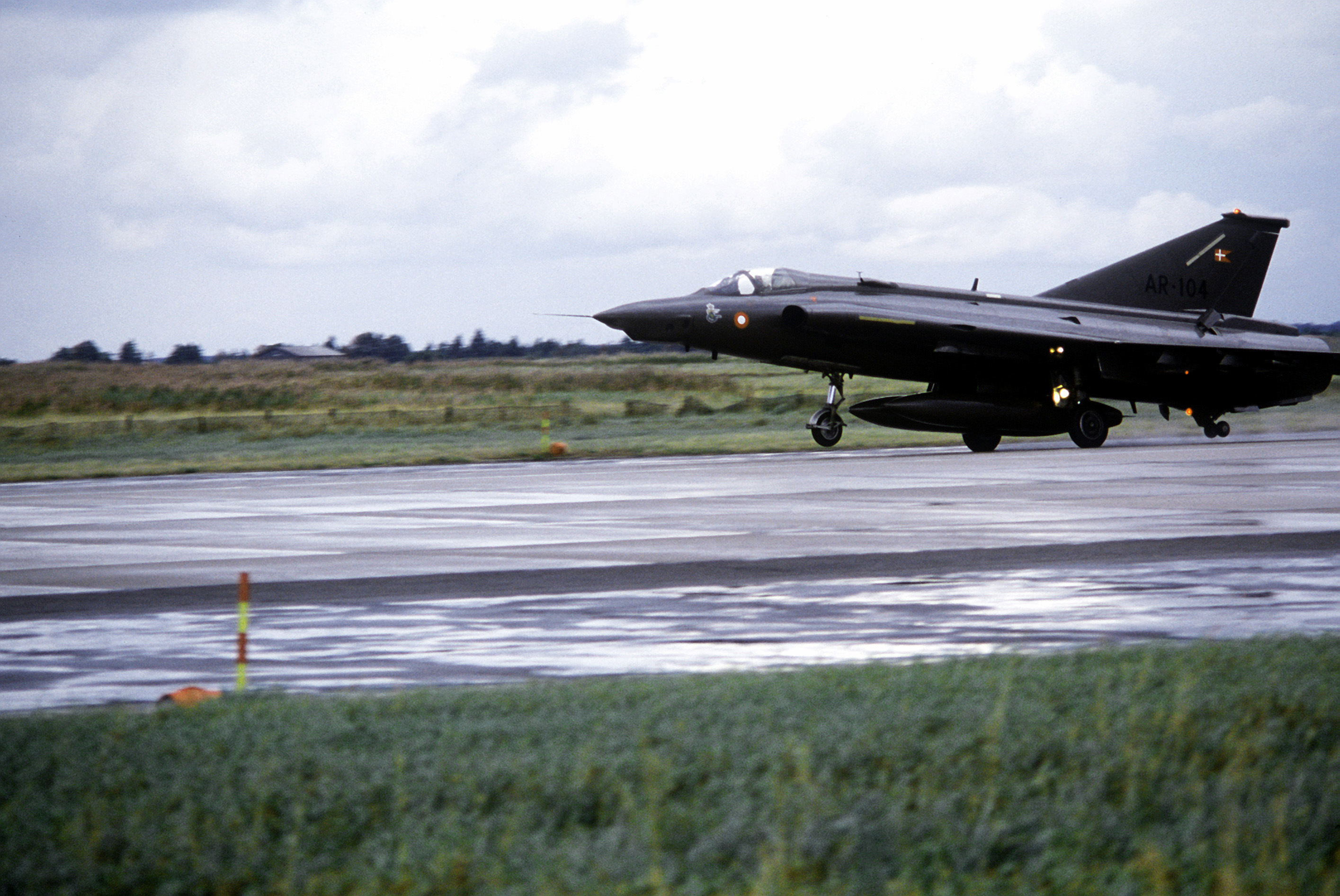 A left side view of a Danish RF 35 Draken aircraft landing during Exercise Reforger '82 at Karup Air Base.